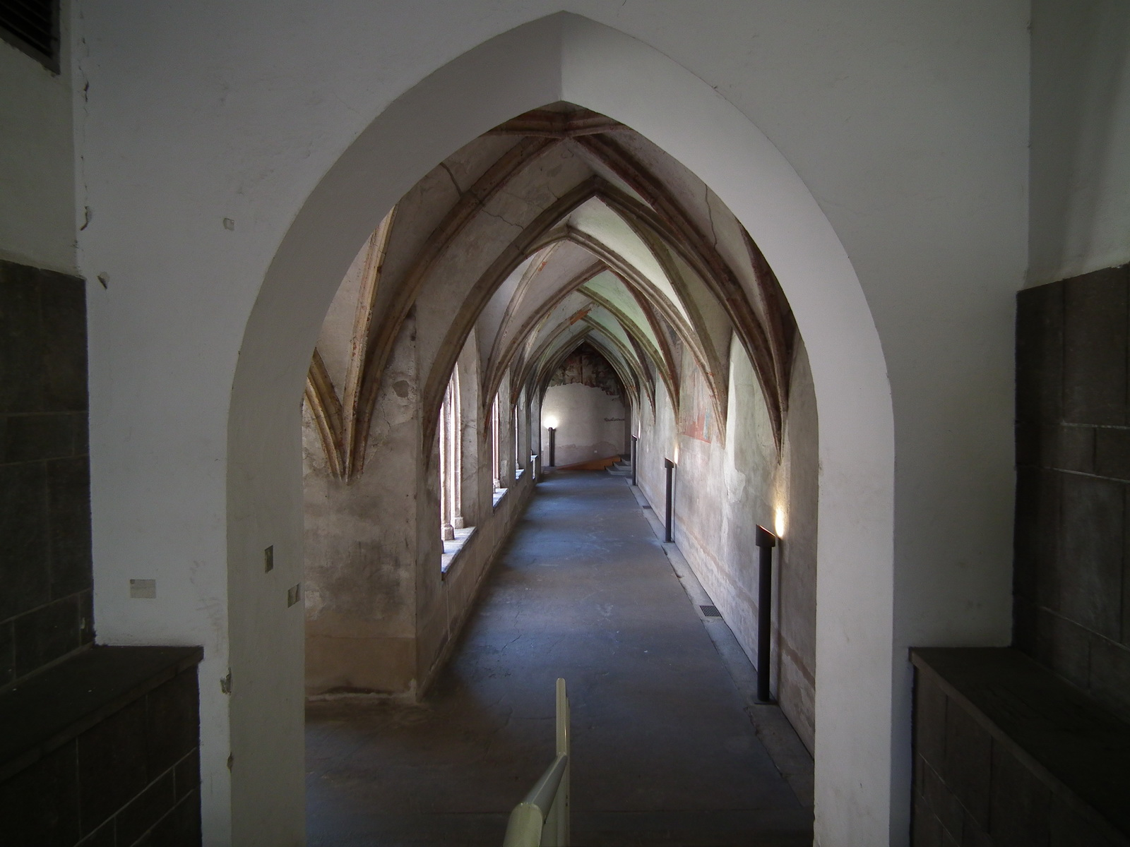 The Cloister Church of the Dominican Order Native nameChiesa dei DomenicaniLocationBolzano, ItalyCoordinates46° 29′ 51.39″ N, 11° 21′ 07.39″ E